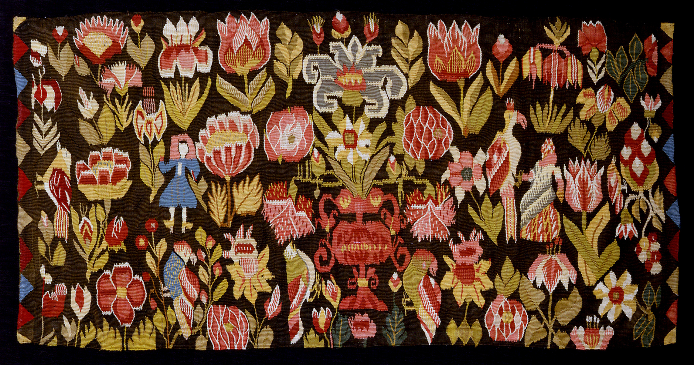 Carriage Cushion Cover (Flowers, Birds and People) Accession number SW 16. Torna district, Scania, Sweden. Second half of the 18th century. Dove-tail tapestry, 50 x 94 cm. From the Khalili Collection of Swedish Textiles